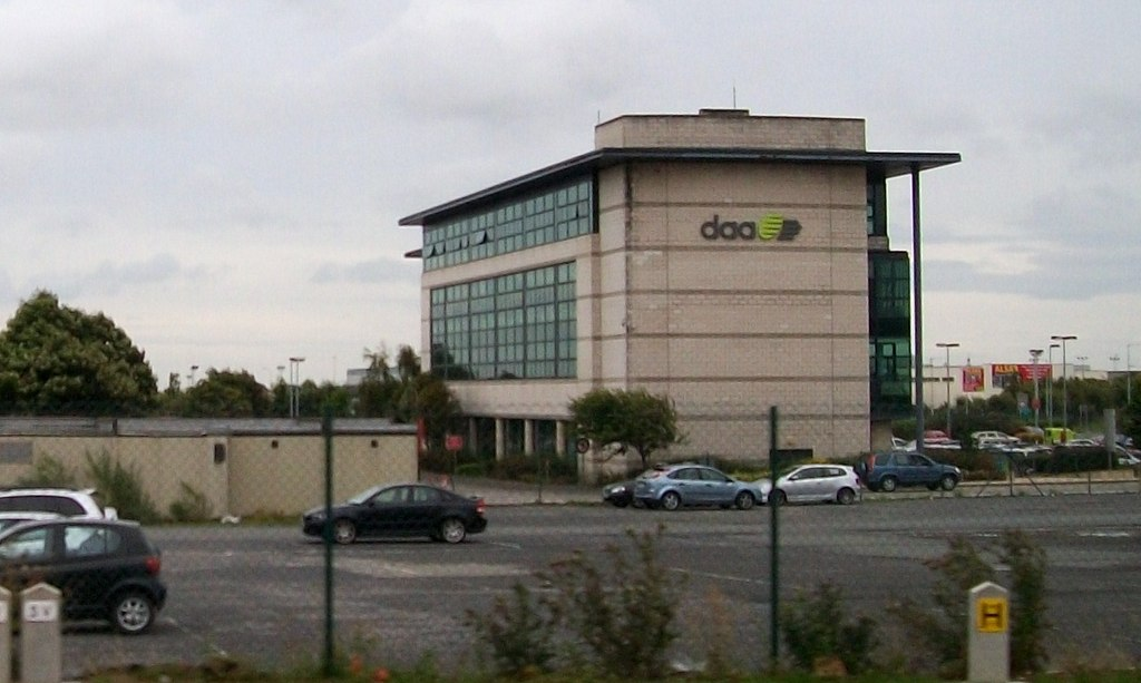 Dublin Airport Authority building